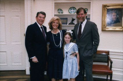 President Ronald Reagan and Lesley Stahl (2-30) Photo Op. With Lesley Stahl and family